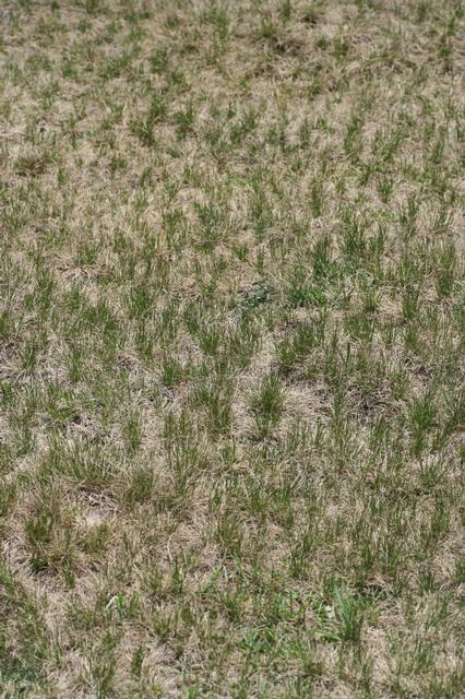 (en) Festuca eskia (Festucion eskiae), a photography originating of the internet site The accord of the autor, H. Brisse, is here. (fr) Festuca eskia, (Festucion eskiae), une photographie issue du site internet L'accord de l'auteur, H. Brisse, se situe ici.